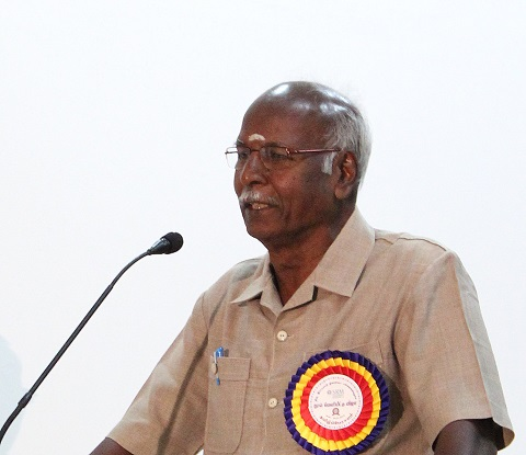 Photograph taken at the SRM University during the book release funtion of Ancient Tamil Classic Pattuppattu in English(The Ten Tamil Idylls) in January 2013